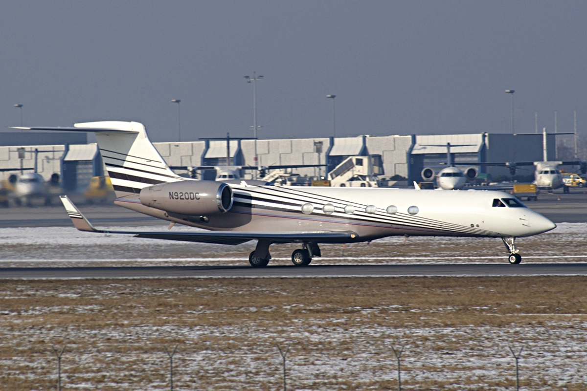 Pentastar Aviation (DaimlerChrysler) Gulfstream V N920DC